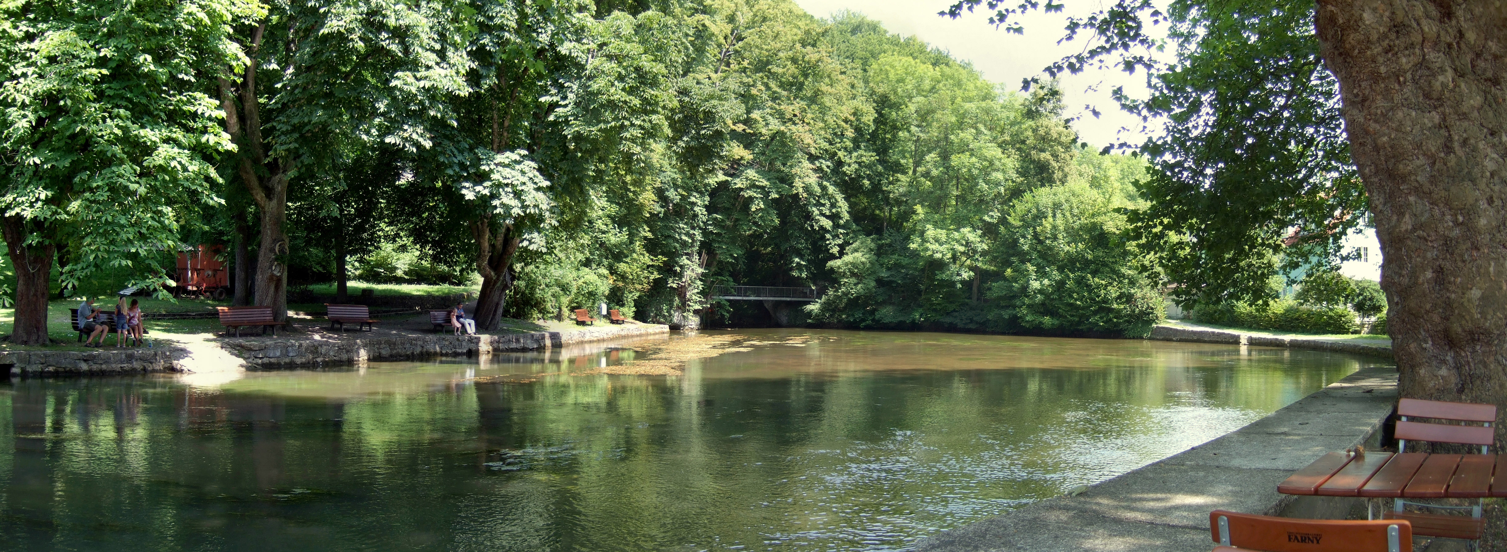 karst spring Aachtopf, source of the river Radolfzeller Aach in Baden-Württemberg, Germany. 3 pictures stitched